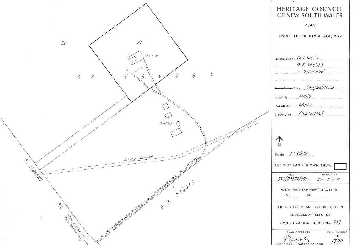 Varroville (homestead): PCO Plan Number 737